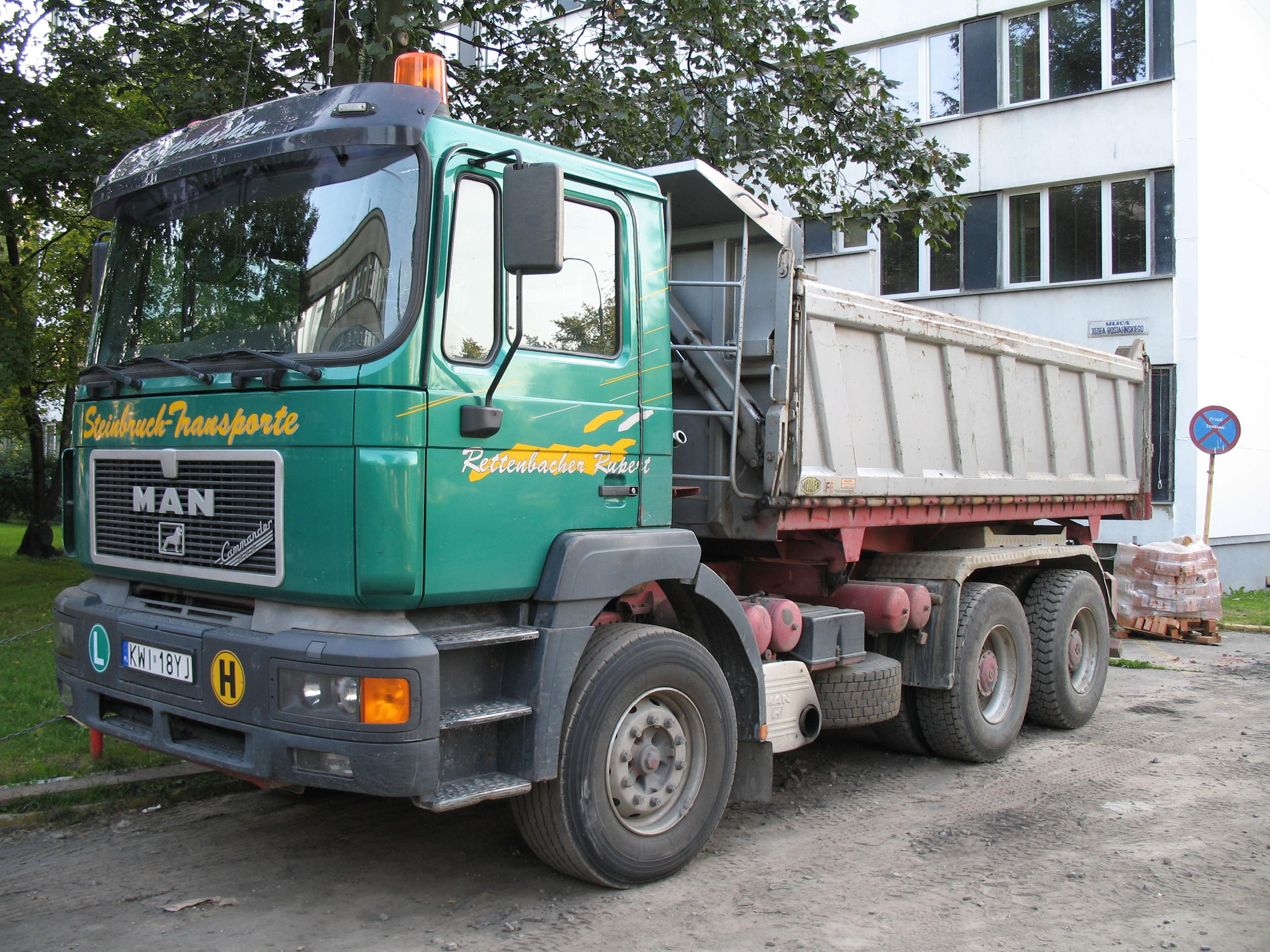 MAN F2000 Commander dump truck in Kraków, Poland.